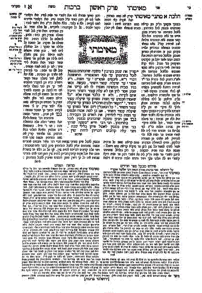 the first page of the masekhet brakhot from the Jerusalem Talmud with the Pney Moshe commentary